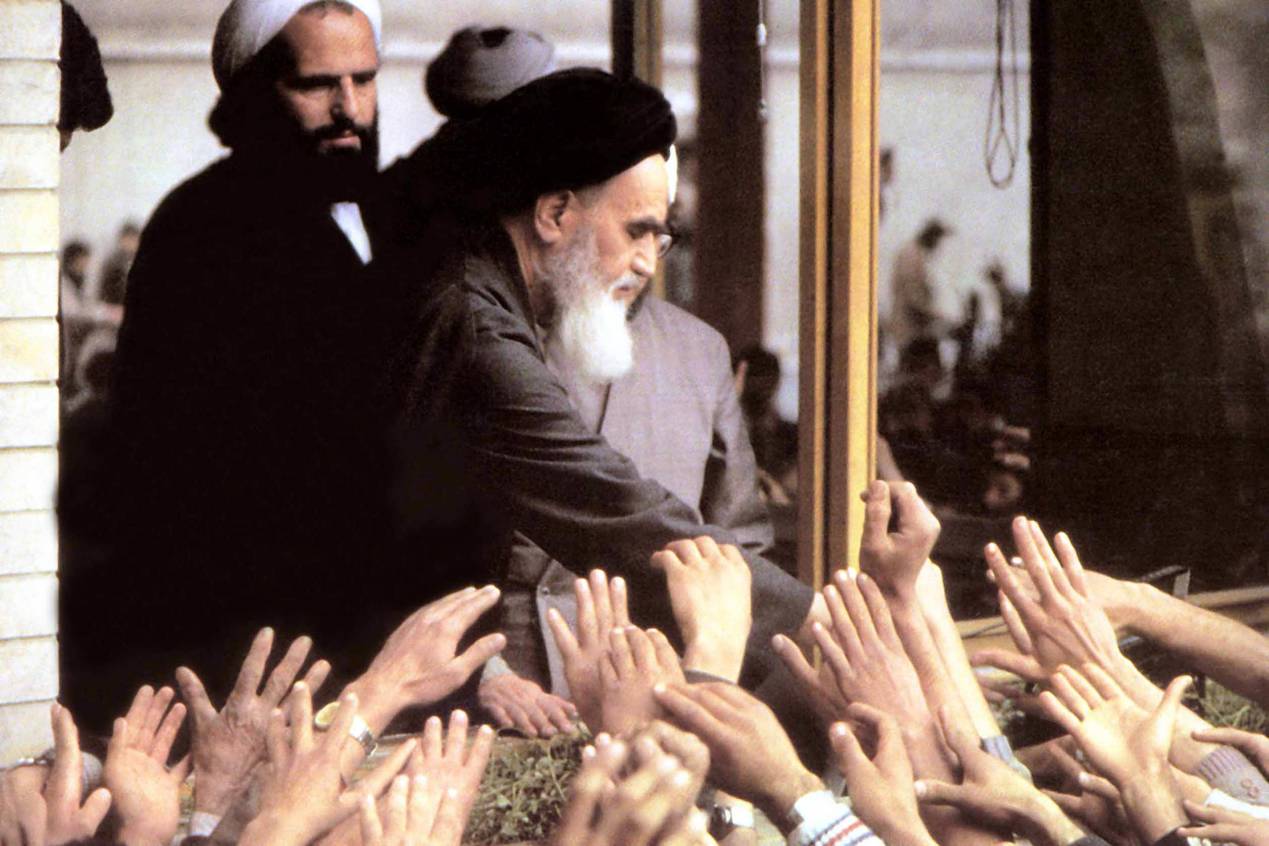 Ruhollah Khomeini and people.